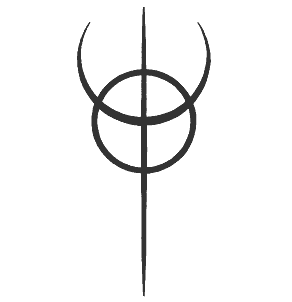 Clavicula Nox symbol. Retouched version of